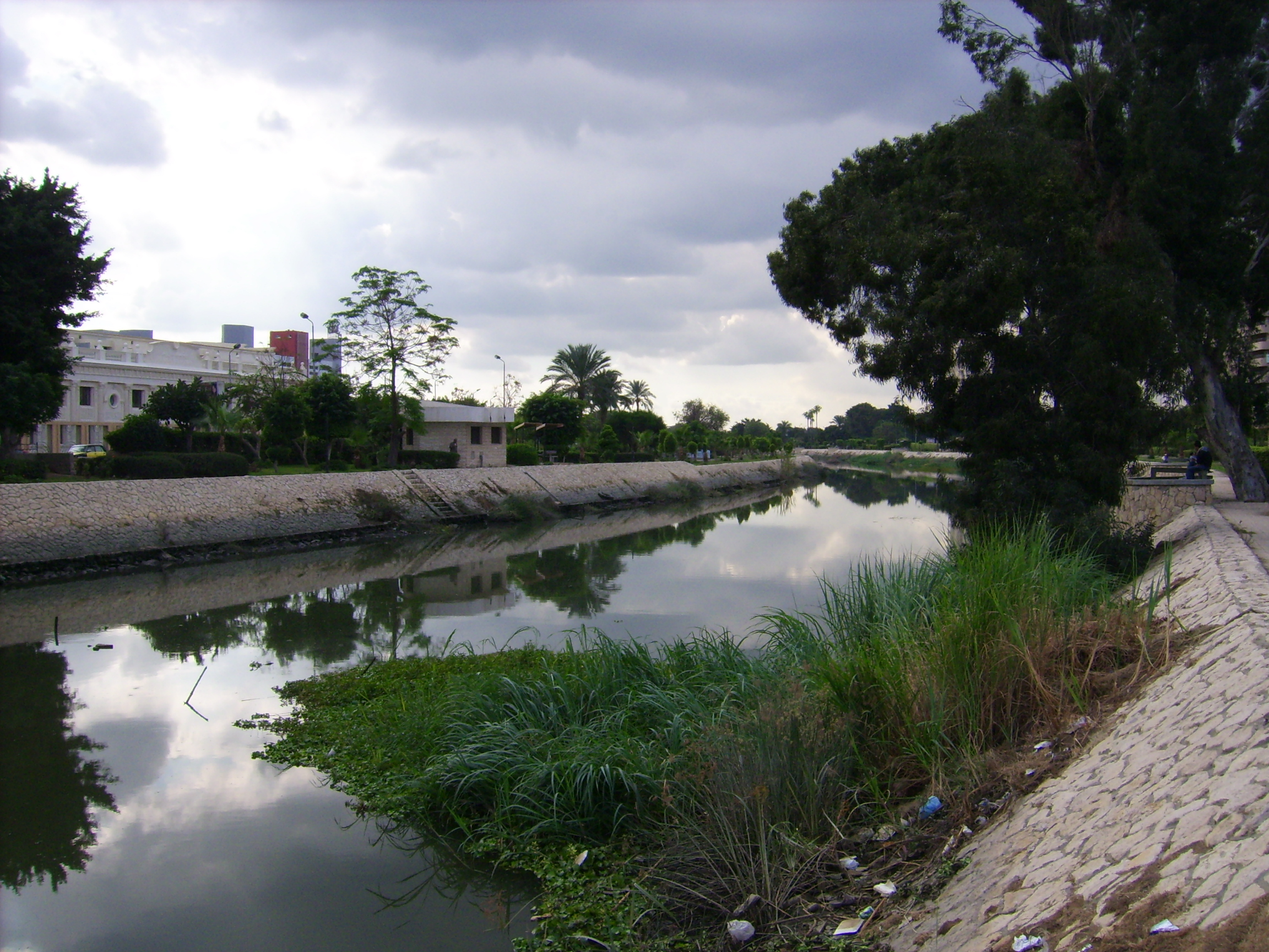 Almahmoudia canal in Alexandria, Egypt